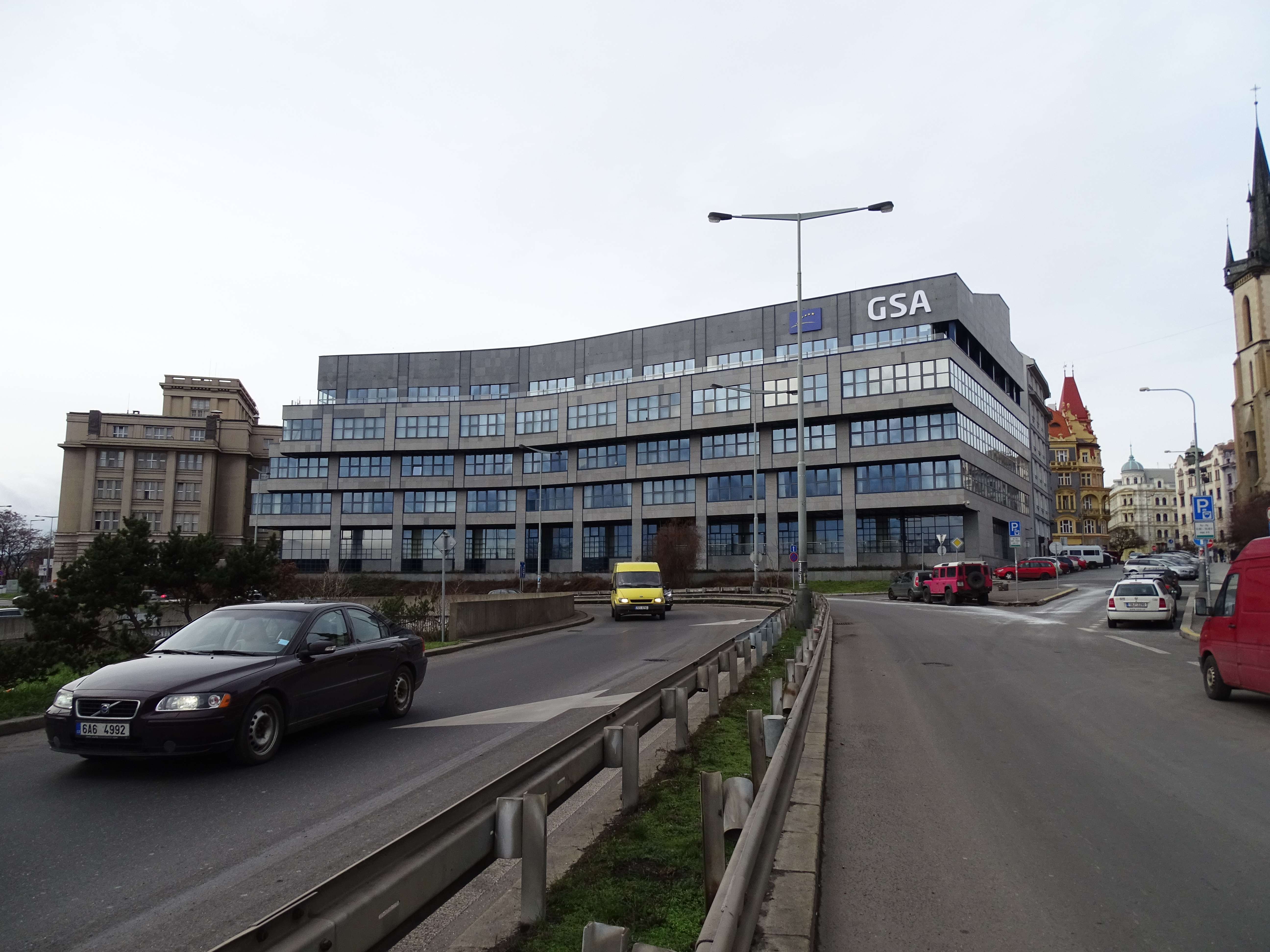 Prague-Holešovice, Czech Republic. North head of Hlávkův most, Galileo building.